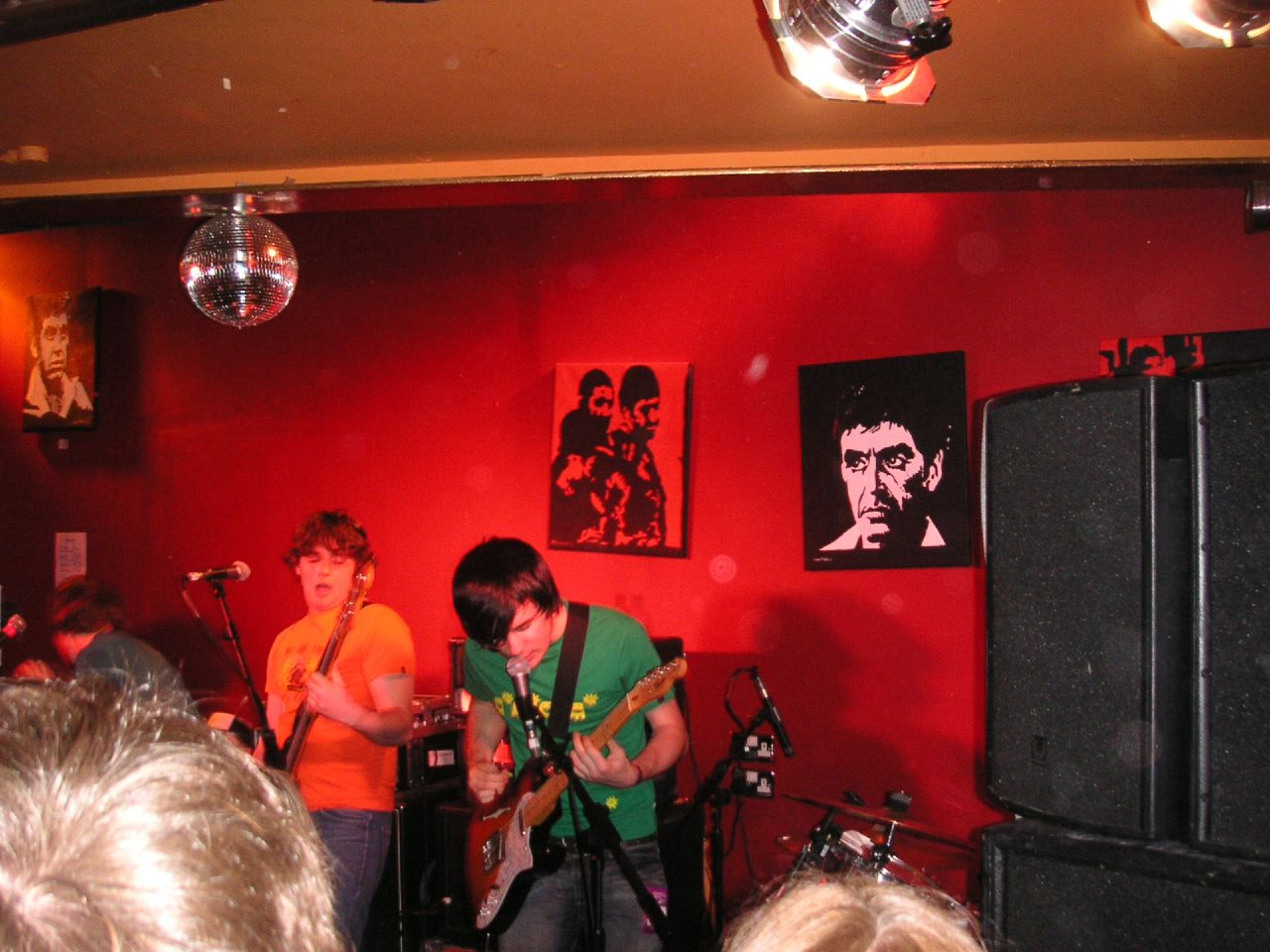 The Automatic in 2006, Camden Crawl, guitarist James Frost and bassist Rob Hawkins.